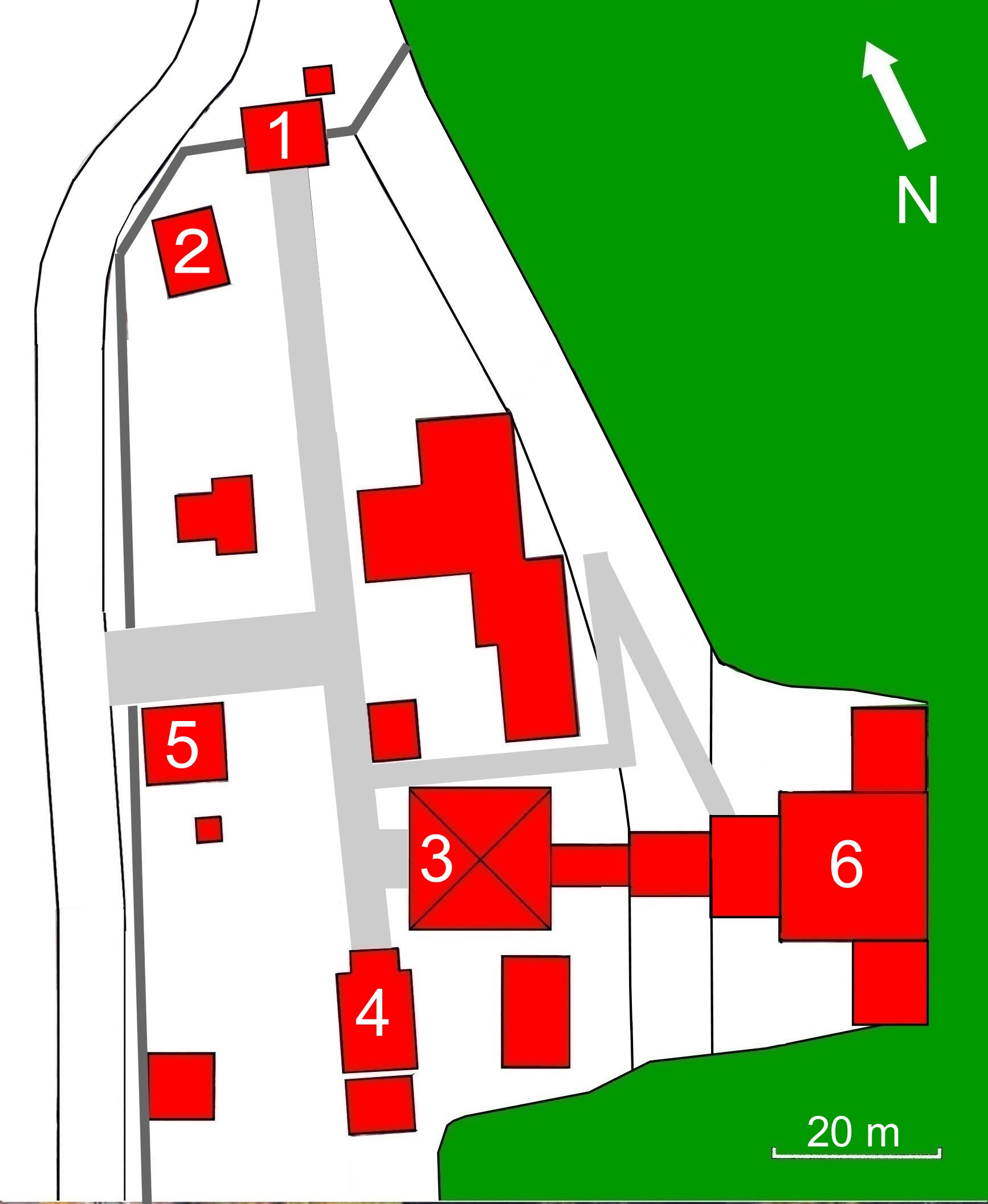 Layout of Chûzen-ji at Nikkô